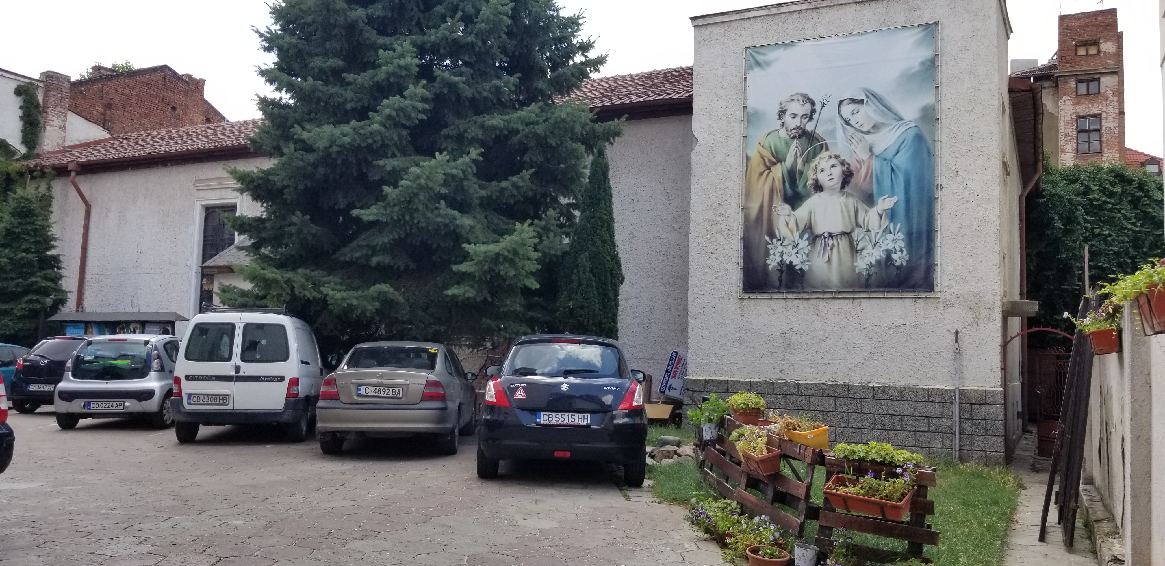 Cathedral of St Joseph, Sofia - old church